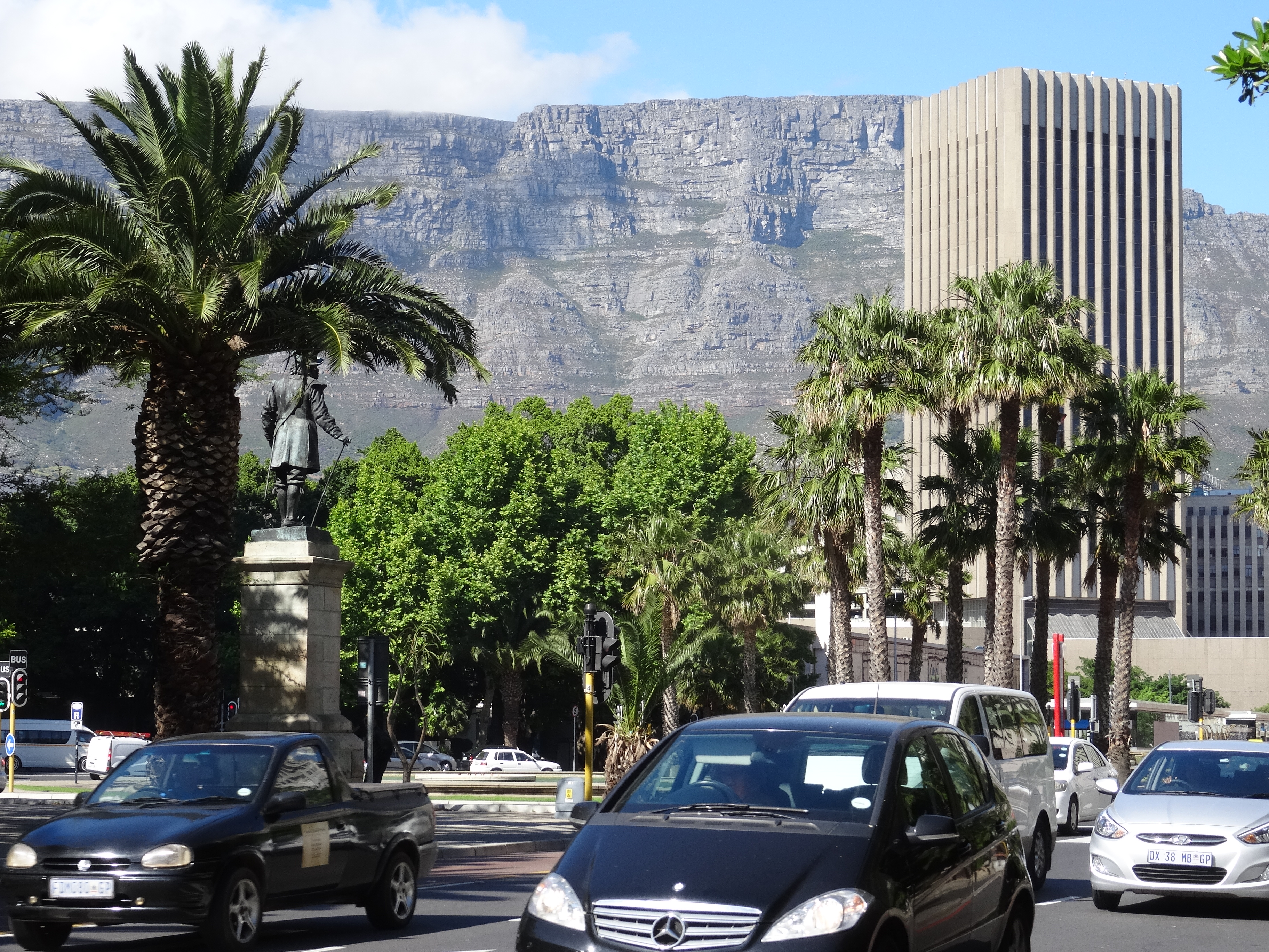 Adderley street and Jan van Riebeeck statue